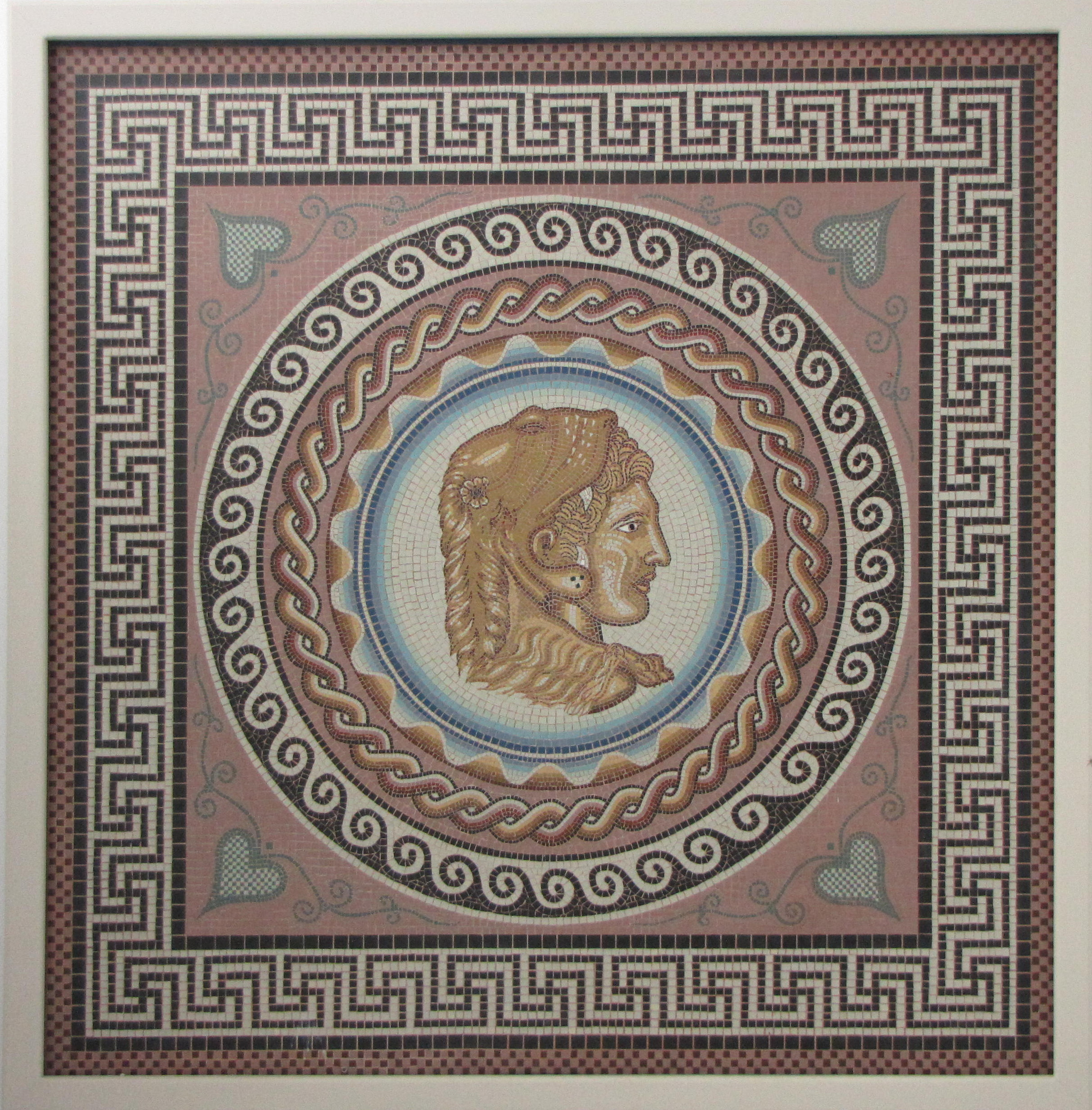 Mosaic of Alexander the Great